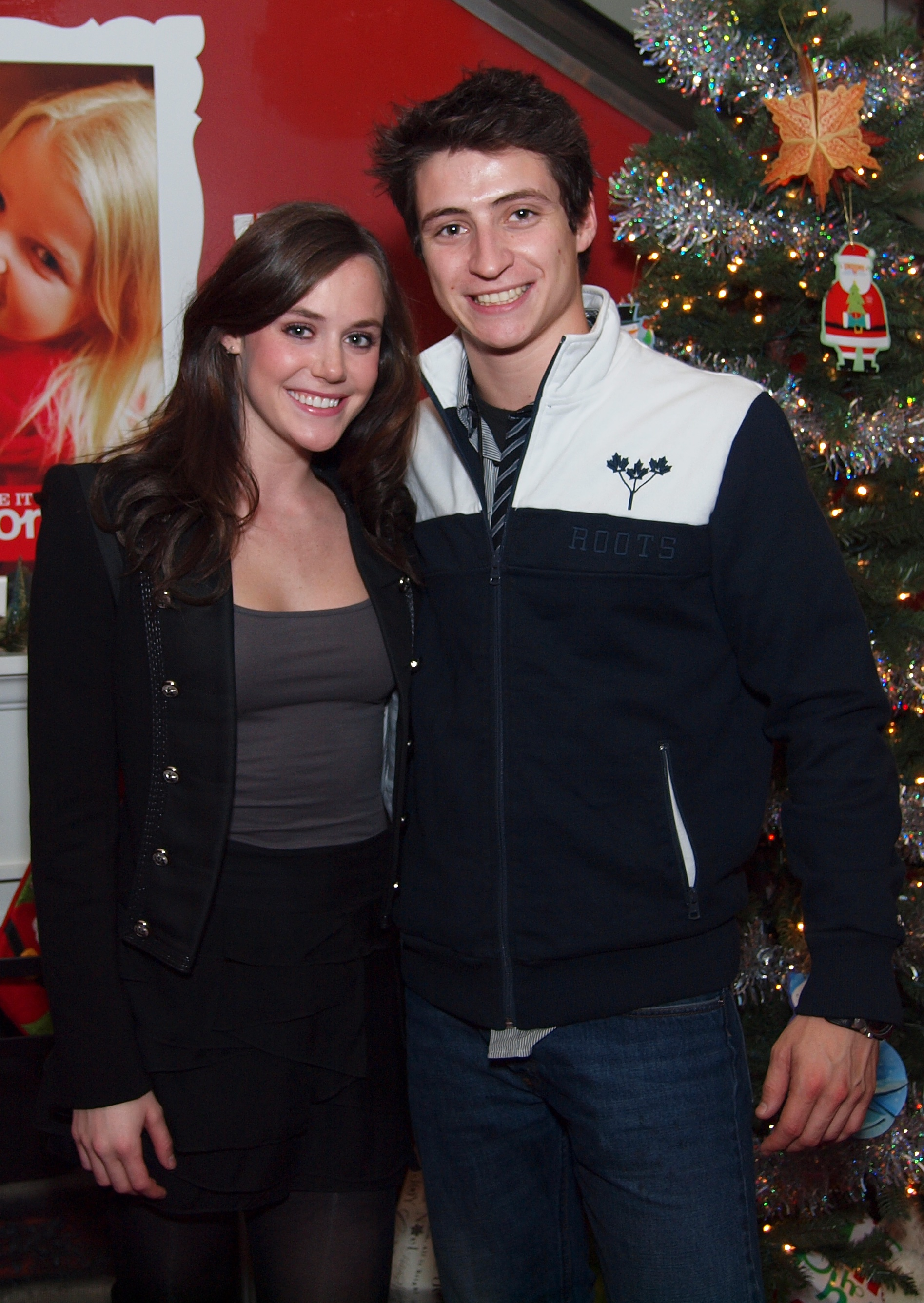 Tessa Virtue and Scott Moir at the 2010 Gemini Awards